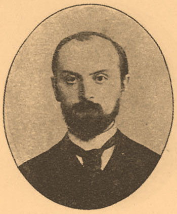 Illustration from Brockhaus and Efron Encyclopedic Dictionary (1890—1907)